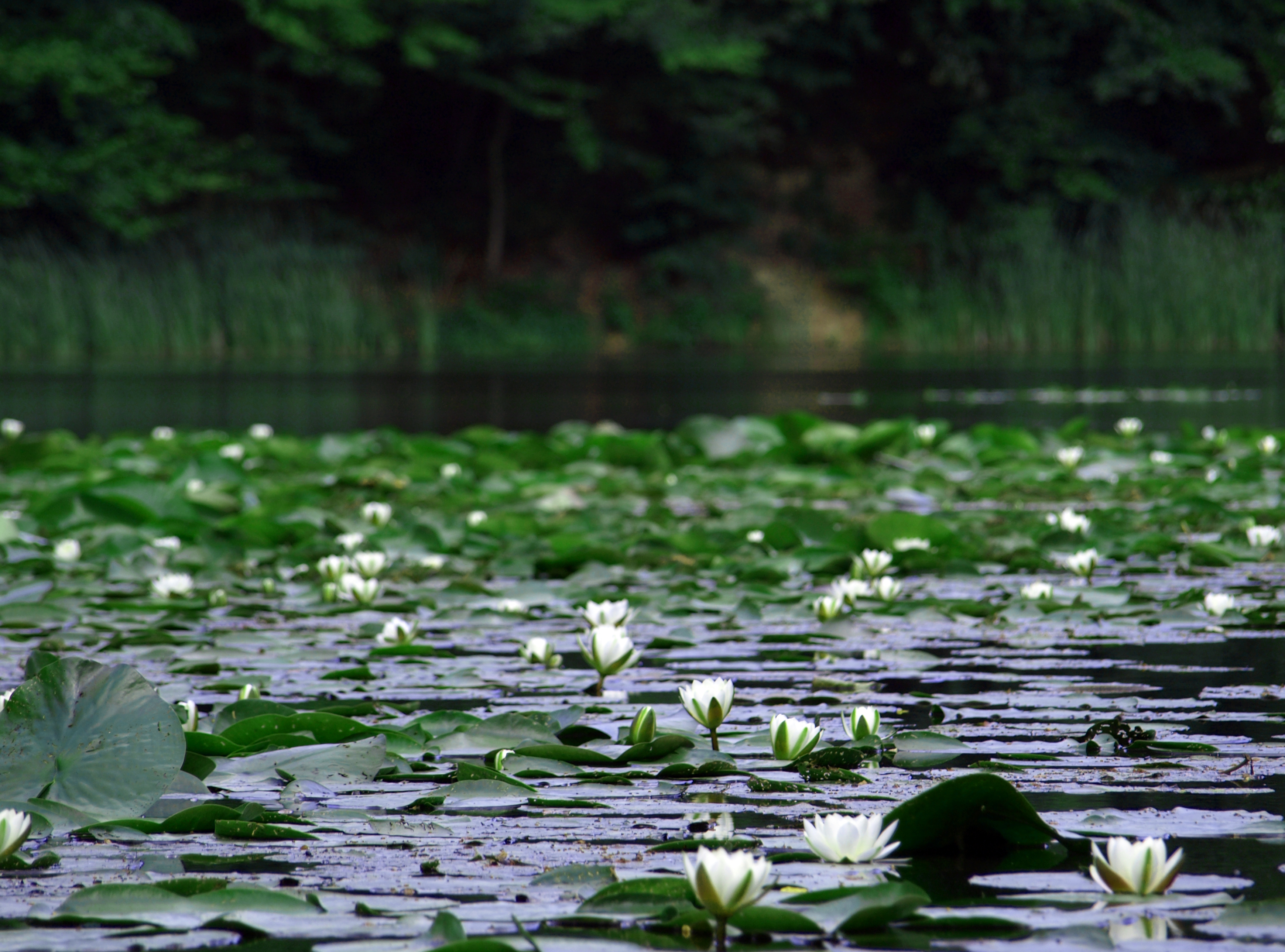 Lacul Mic (Lacul cu Nuferi), comuna Dognecea, jud. Caras-Severin